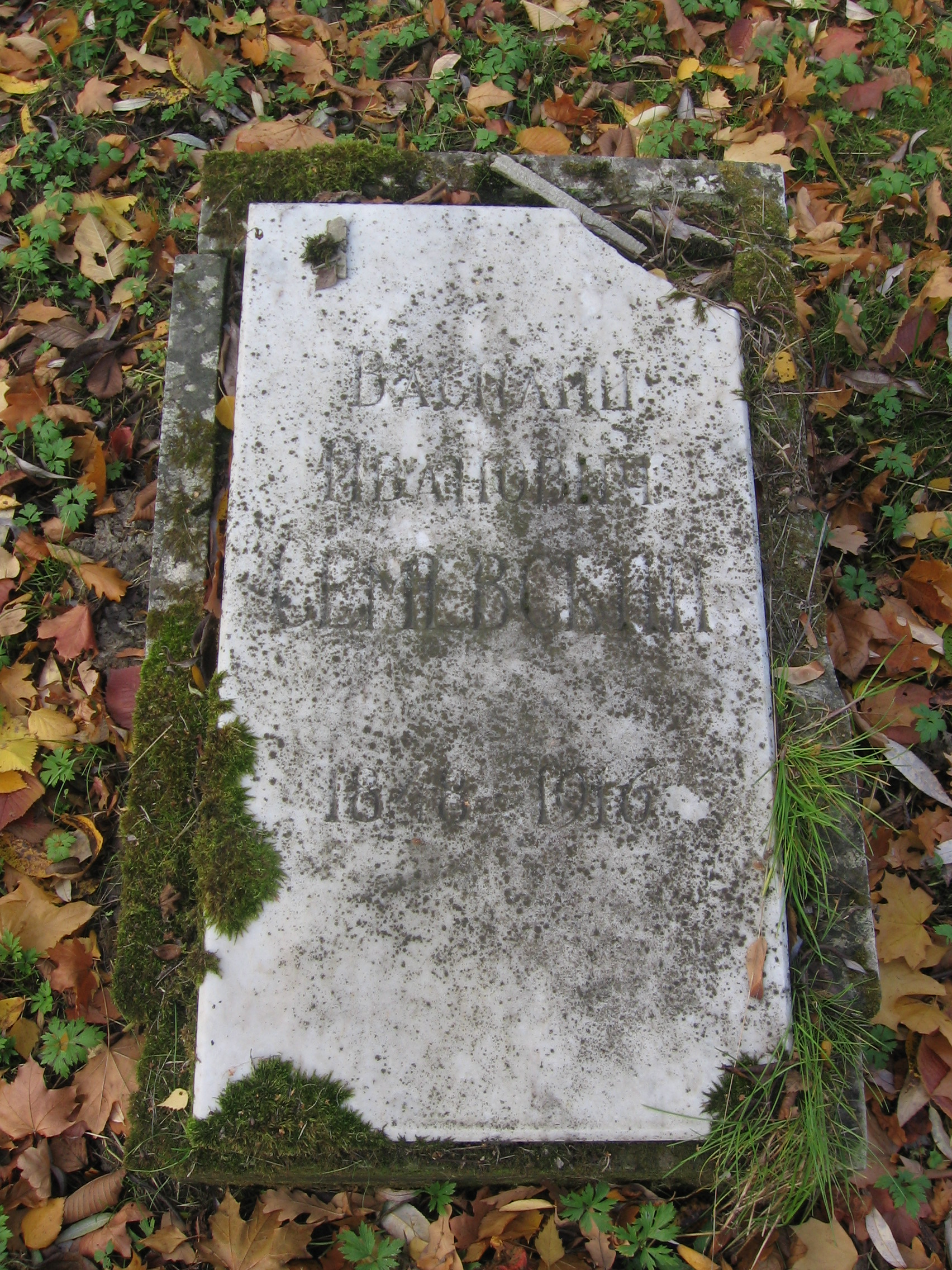 Grave of Vasily Semevsky